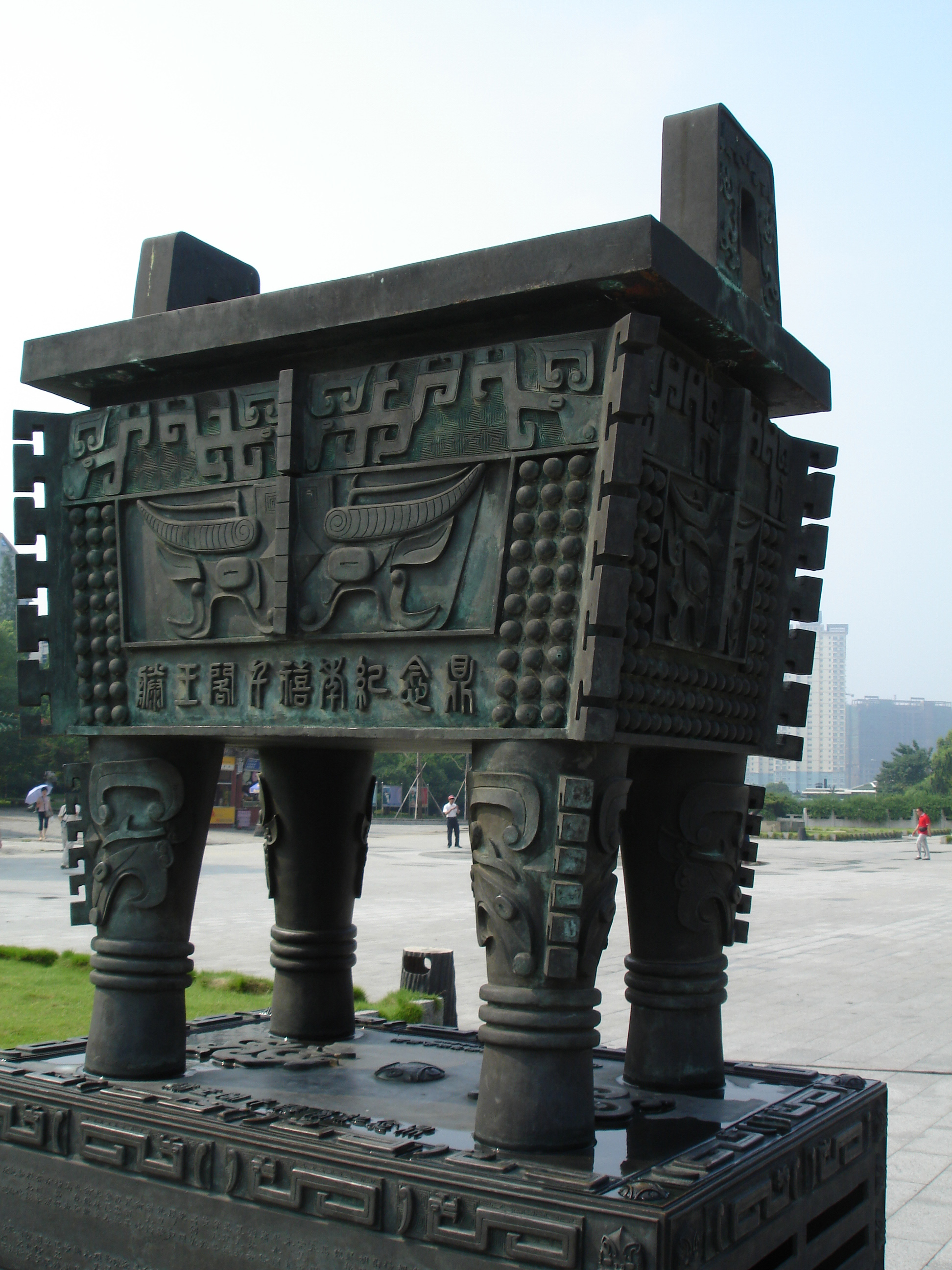 Ding (鼎) are prehistoric and ancient Chinese cauldrons, standing upon legs with a lid and two facing handles. They are one of the most important shapes used in Chinese ritual bronzes. This photo has been taken in the country: China